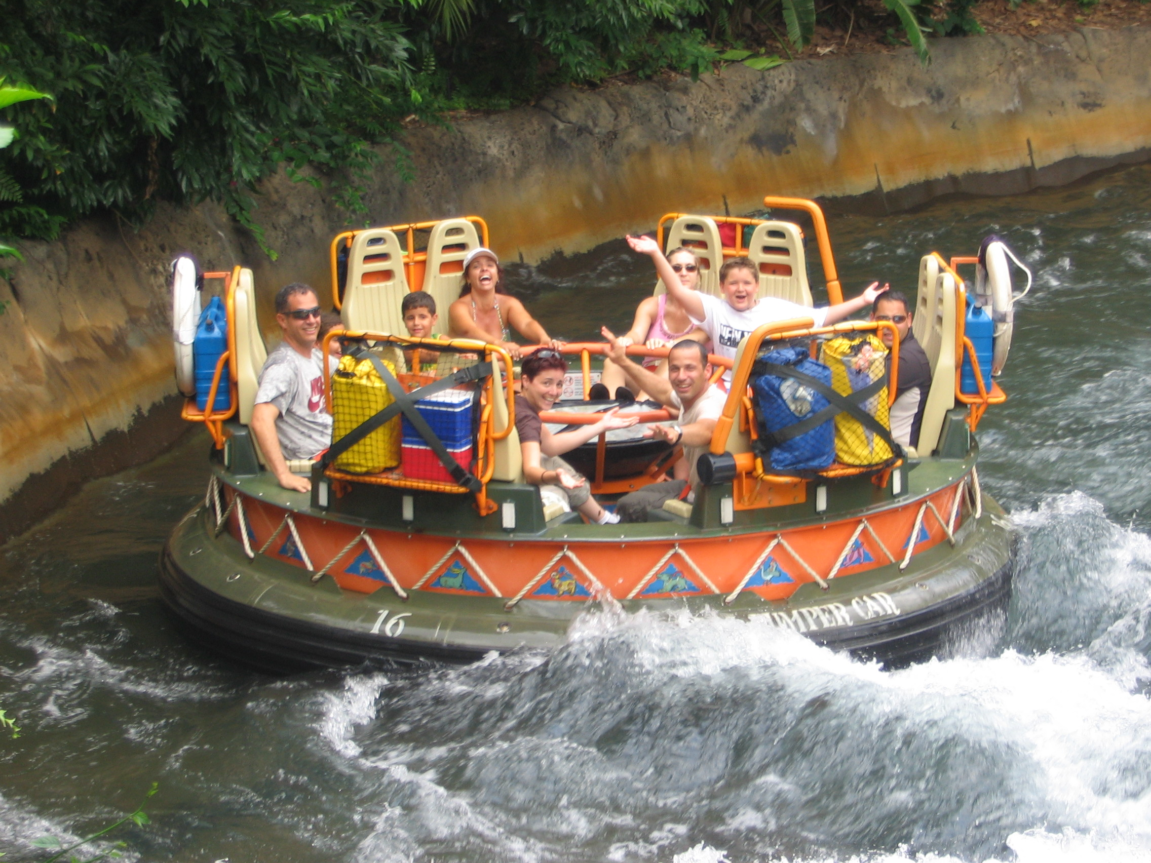 Kali River Rapids in disneyworld